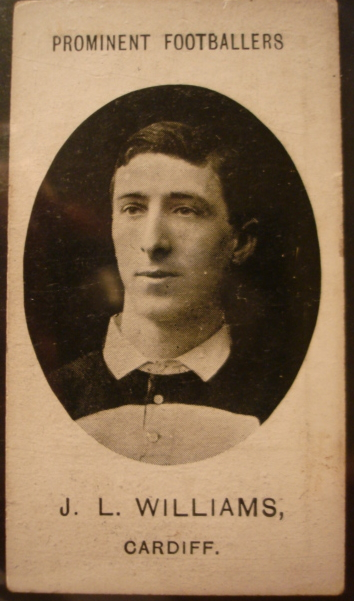 John Lewis Williams, Wales international rugby union player, Cardiff Club